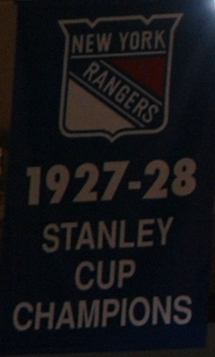 New York Rangers Stanley Cup Banner 1927/28 in the Madison Square Garden